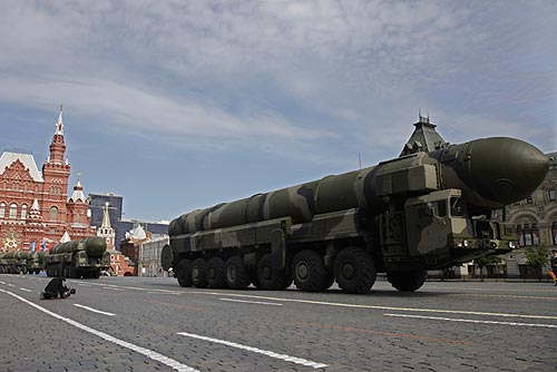 RED SQUARE, MOSCOW. Military parade marking the sixty-third anniversary of Victory in the Great Patriotic War.